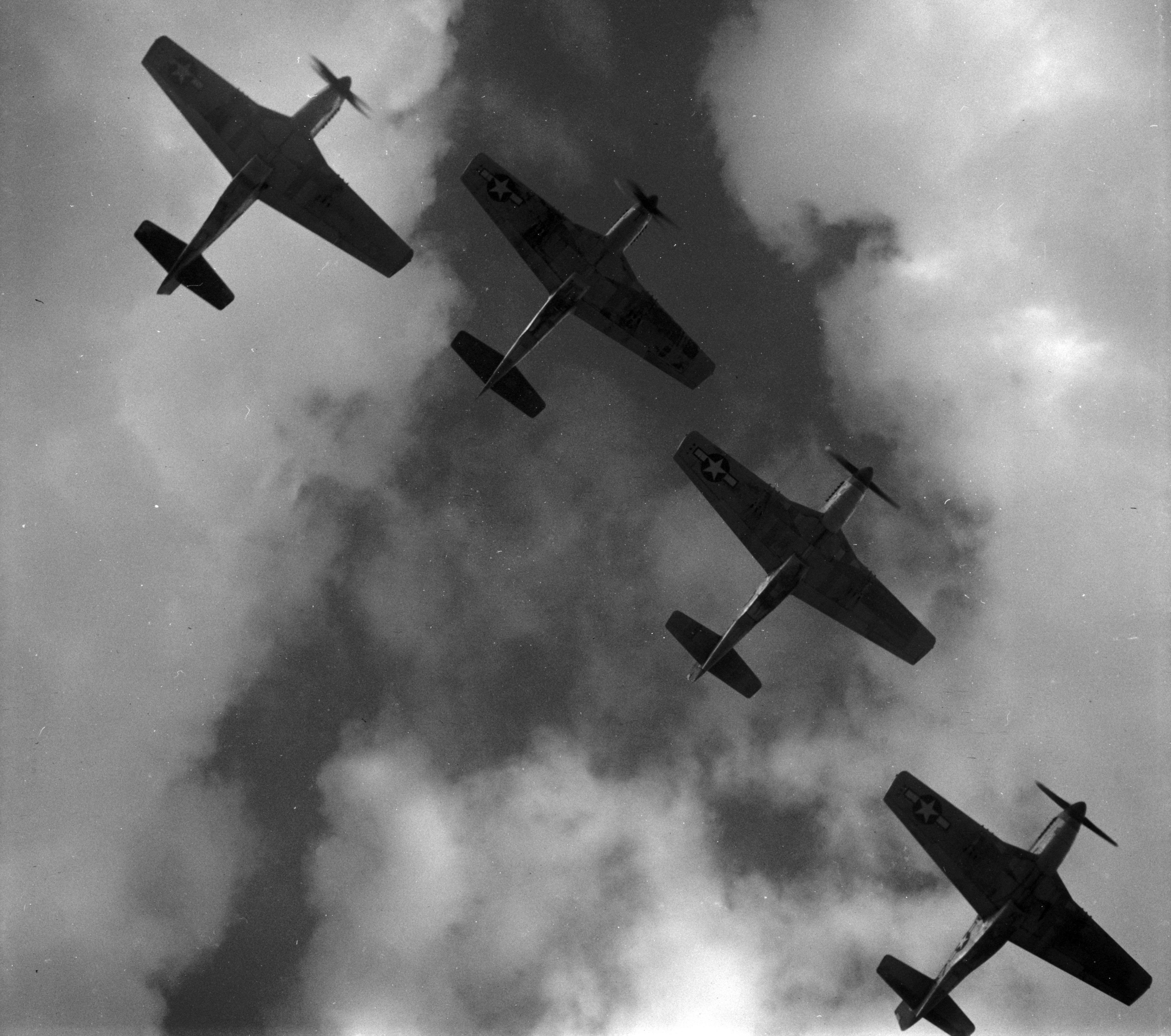 Four U.S. Army Air Forces North American P-51 Mustang fighters from the 332nd Fighter Group flying in formation over Ramitelli airfield, Campobasso, Italy, in March 1945.